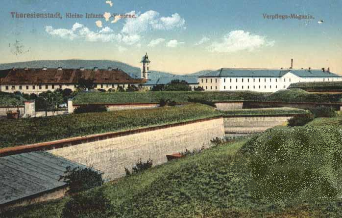 smaller Infantry barracks at Theresienstadt Fortress (CZ)